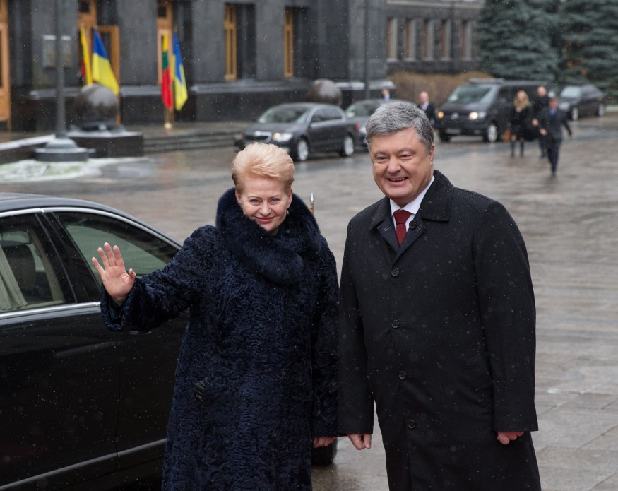 Petro Poroshenko and Dalia Grybauskaitė in Kiev, December 2016